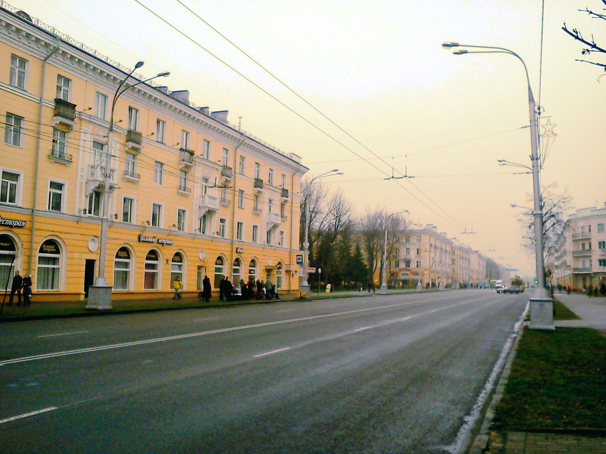 Lenin avenue in Homieĺ, Belarus